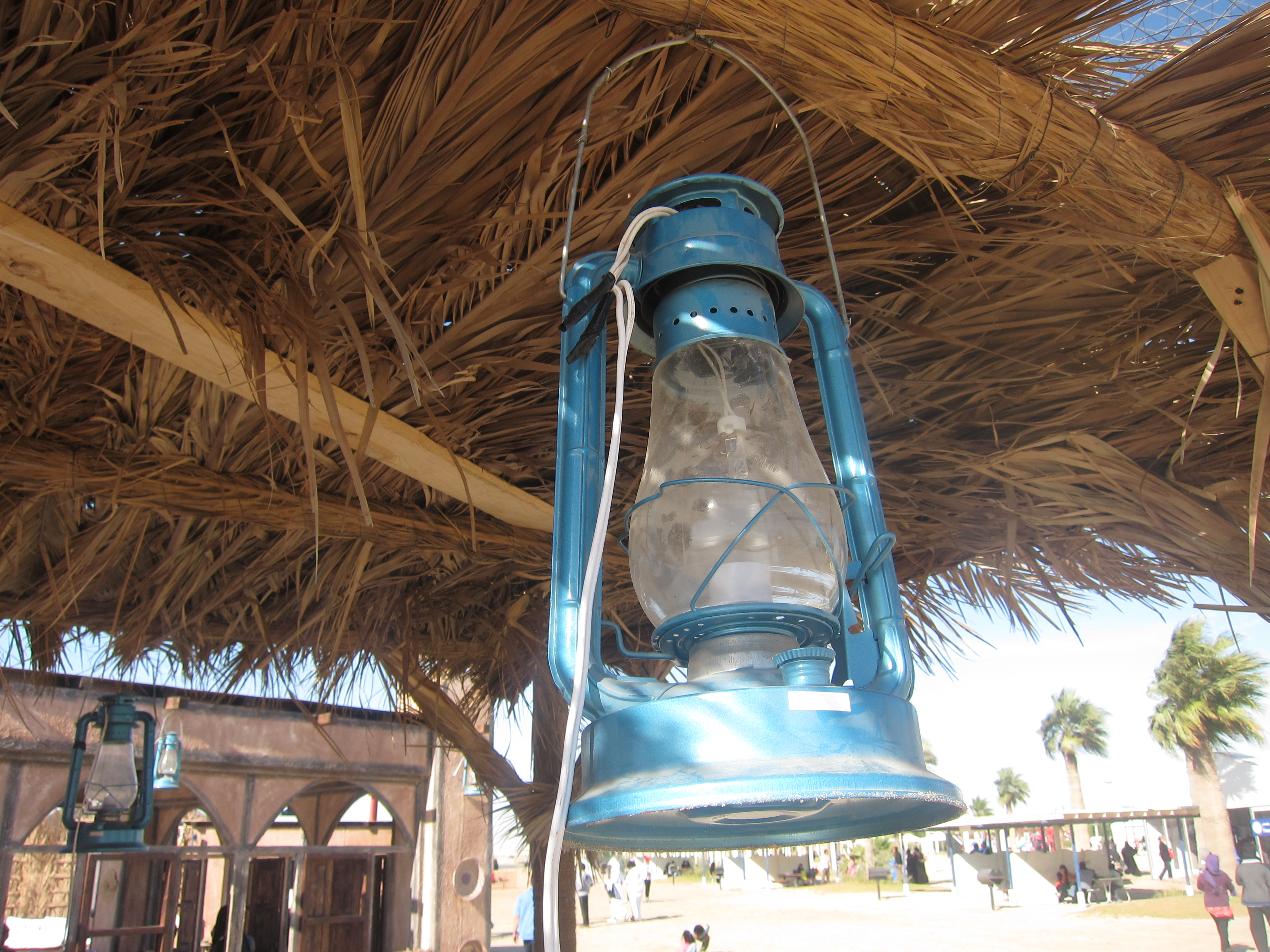 Saudi Culture - സൗദി സംസ്കാരം